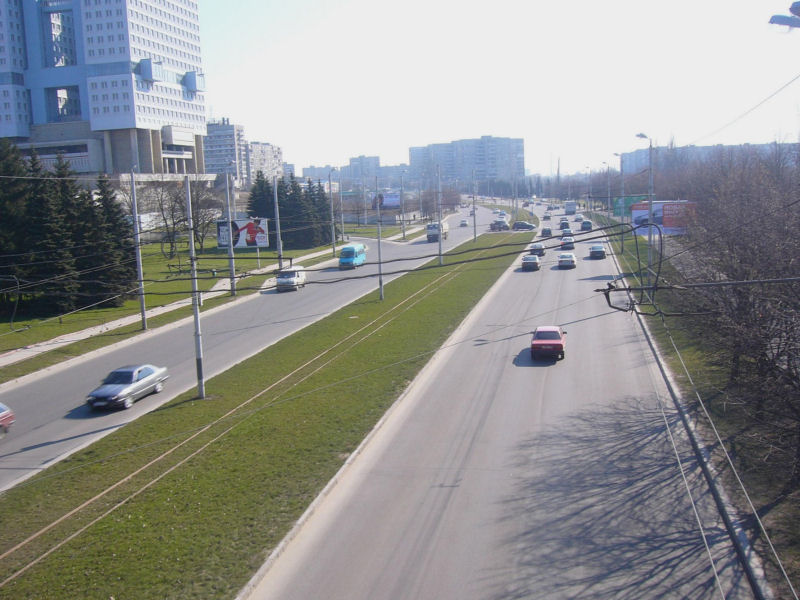 Moskovsky Prospekt in Kaliningrad.